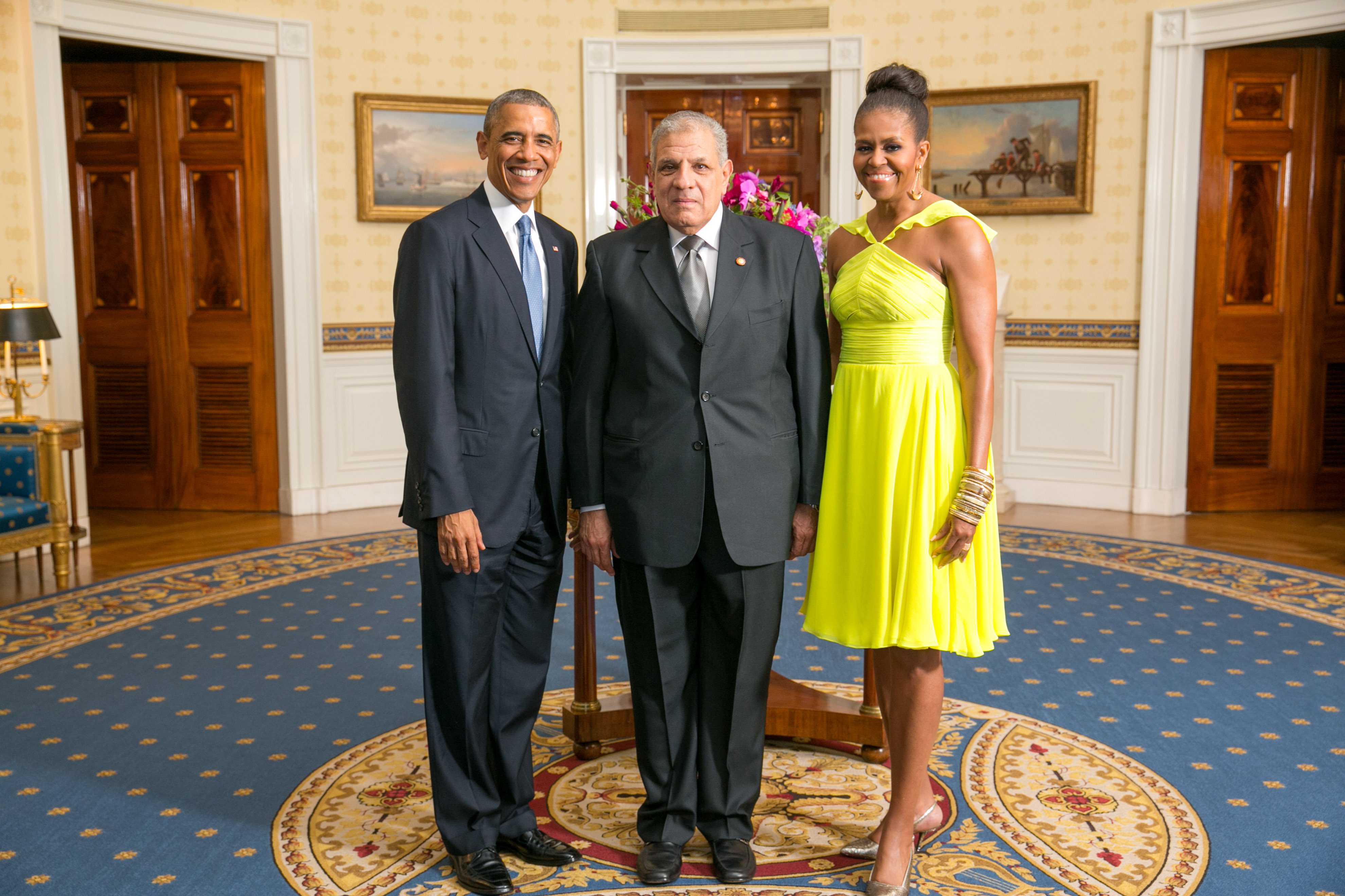 President Barack Obama and First Lady Michelle Obama greet His Excellency Ibrahim Roshdy Mahlab, Prime Minister of the Arab Republic of Egypt, in the Blue Room during a U.S.-Africa Leaders Summit dinner at the White House, Aug. 5, 2014. [Official White House Photo by Amanda Lucidon] This official White House photograph is in the public domain from a copyright perspective, so while restrictions such as personality or privacy rights may apply, in general, manipulations are allowed.